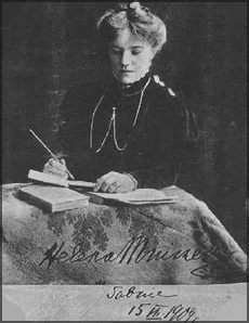 Helena Mniszkówna (1878-1943), Polish romance writer.